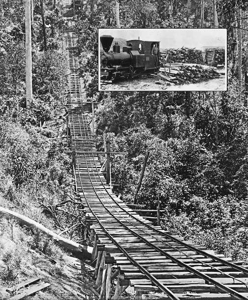 Construction of the tramway at Cangai Copper Mine. It was opened in 1911, extended in 1912 and closed in 1917. It was over four miles long and transported firewood into the smelters to heat the furnaces.